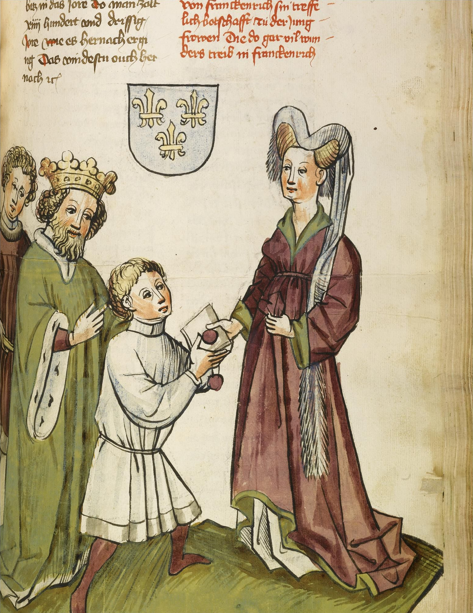 Eberhard Windeck: Das Buch von Kaiser Sigismund (Handschrift bei Sotheby's 7.7.2009, folio 144r, King Sigismund directing a kneeling messenger to give a sealed letter to "the Virgin who has performed many miracles" (Saint Joan of Arc, in a burgundy-red dress and with a white head-dress)